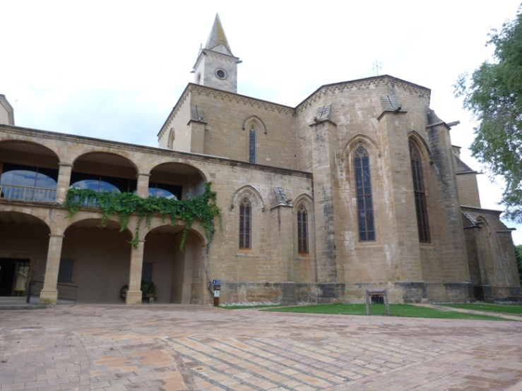 El Monestir d'Avellanes, Lleida, Catalonia.